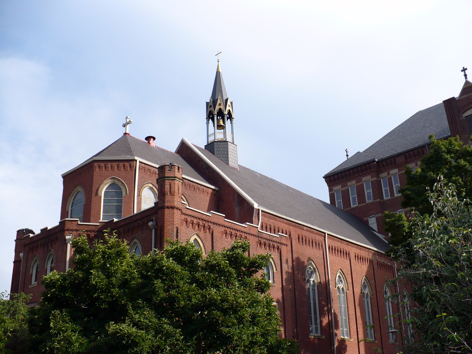 Duquesne University's chapel